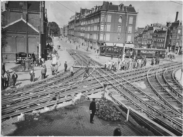 Trackwork at Rozengracht/Marnixstraat in Amsterdam 1928. Photo Nr: 1-3003.